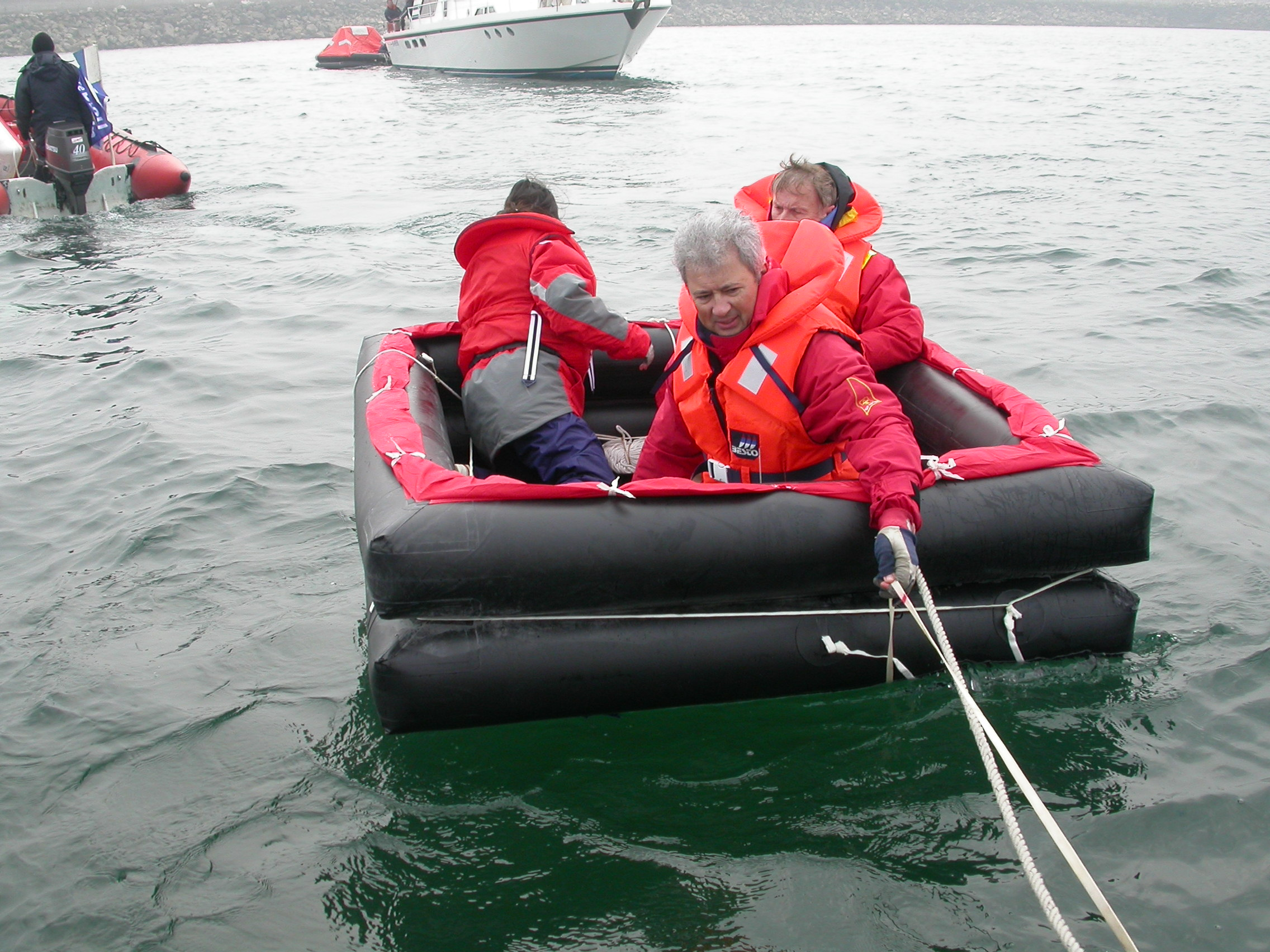 Lifeboat (coastal). Roadstead of Cherbourg, France.